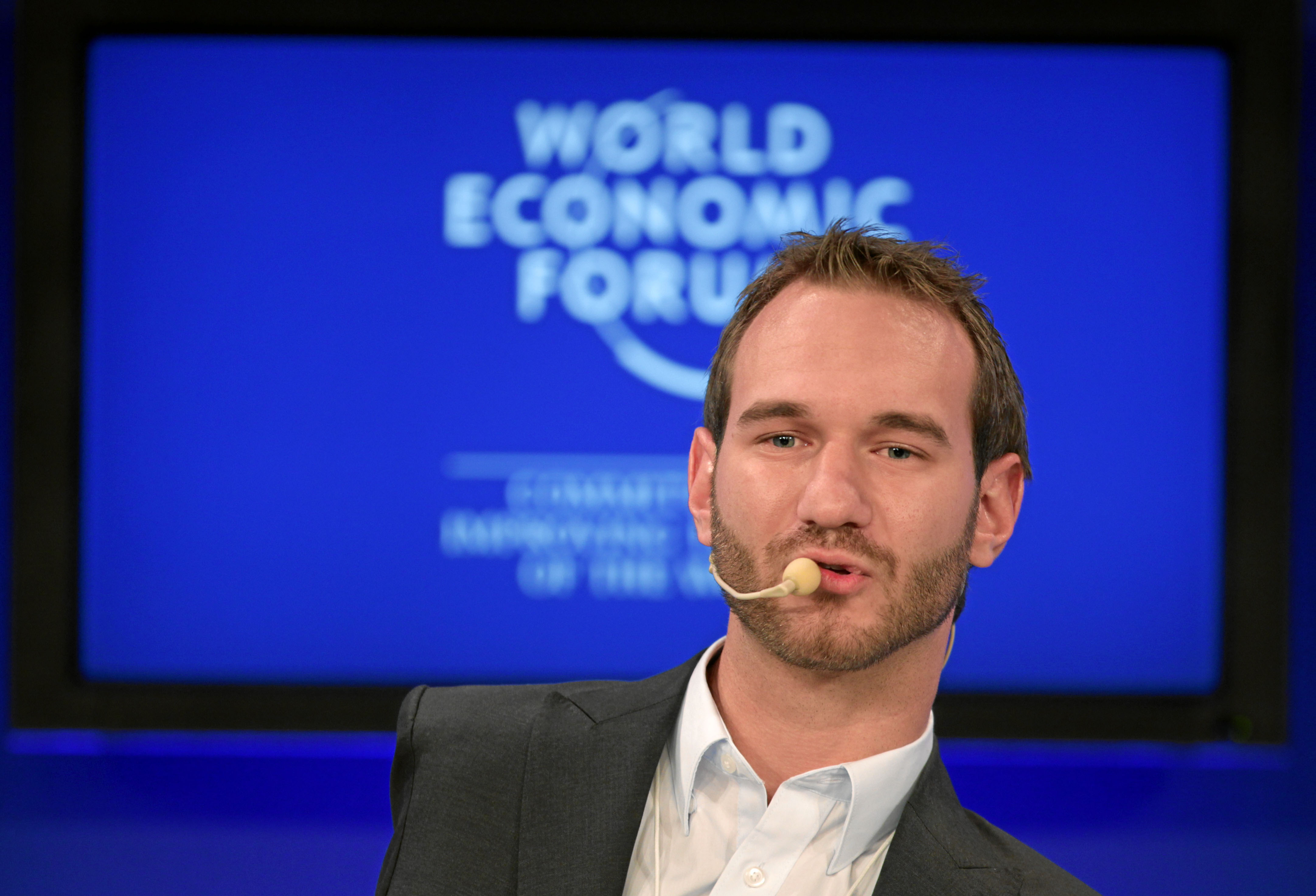 DAVOS/SWITZERLAND, 30 January 2011 — Nick Vujicic, Founder and President, Life Without Limbs, USA, is captured during the session "Inspired for a Lifetime" at the Annual Meeting 2011 of the World Economic Forum in Davos, Switzerland, January 30, 2011.